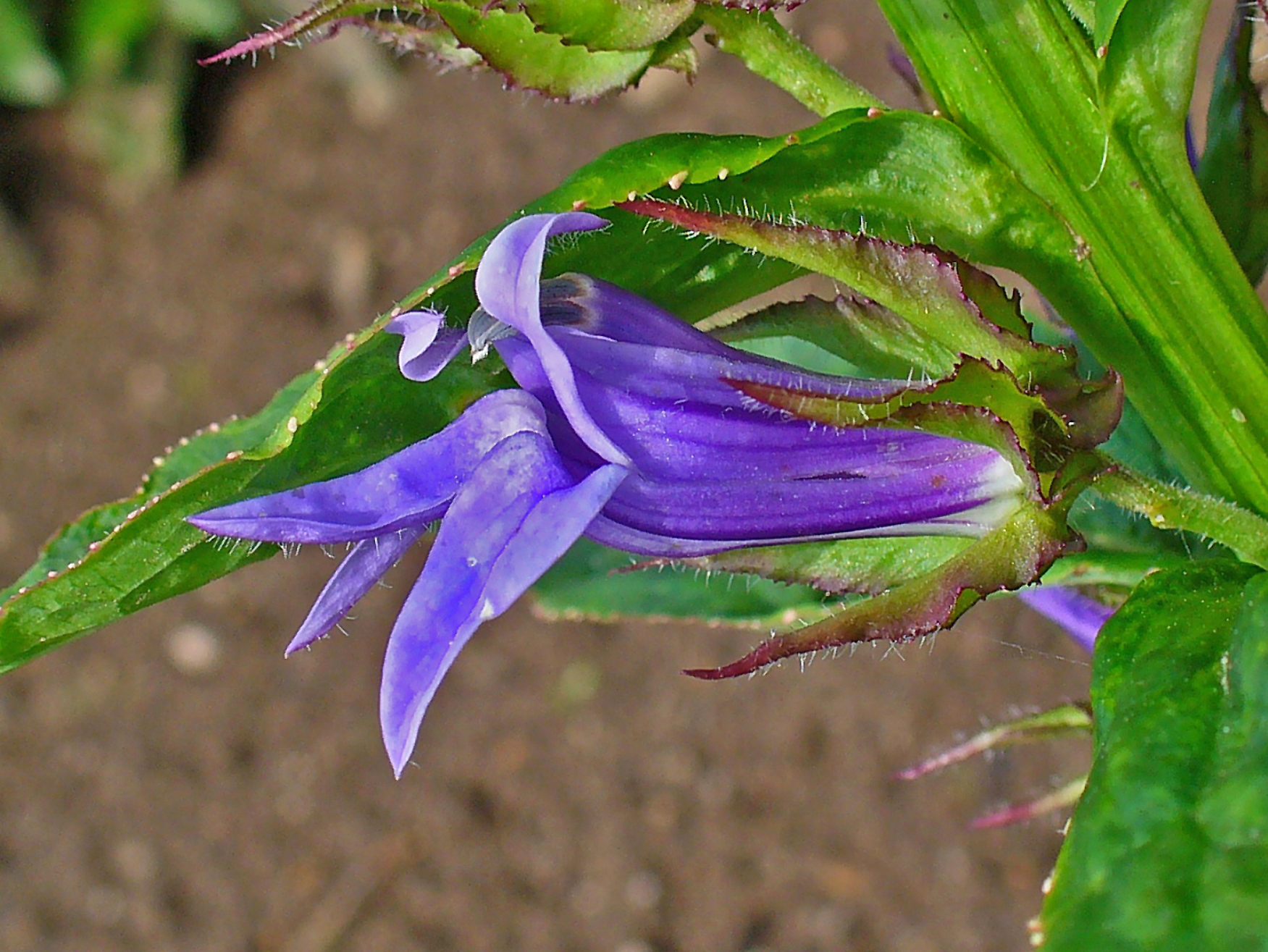 Lobelia siphilitica, Campanulaceae, Great Blue Lobelia, flower. The whole, fresh plant is used in homeopathy as remedy: Lobelia siphilitica (Lob-s.)